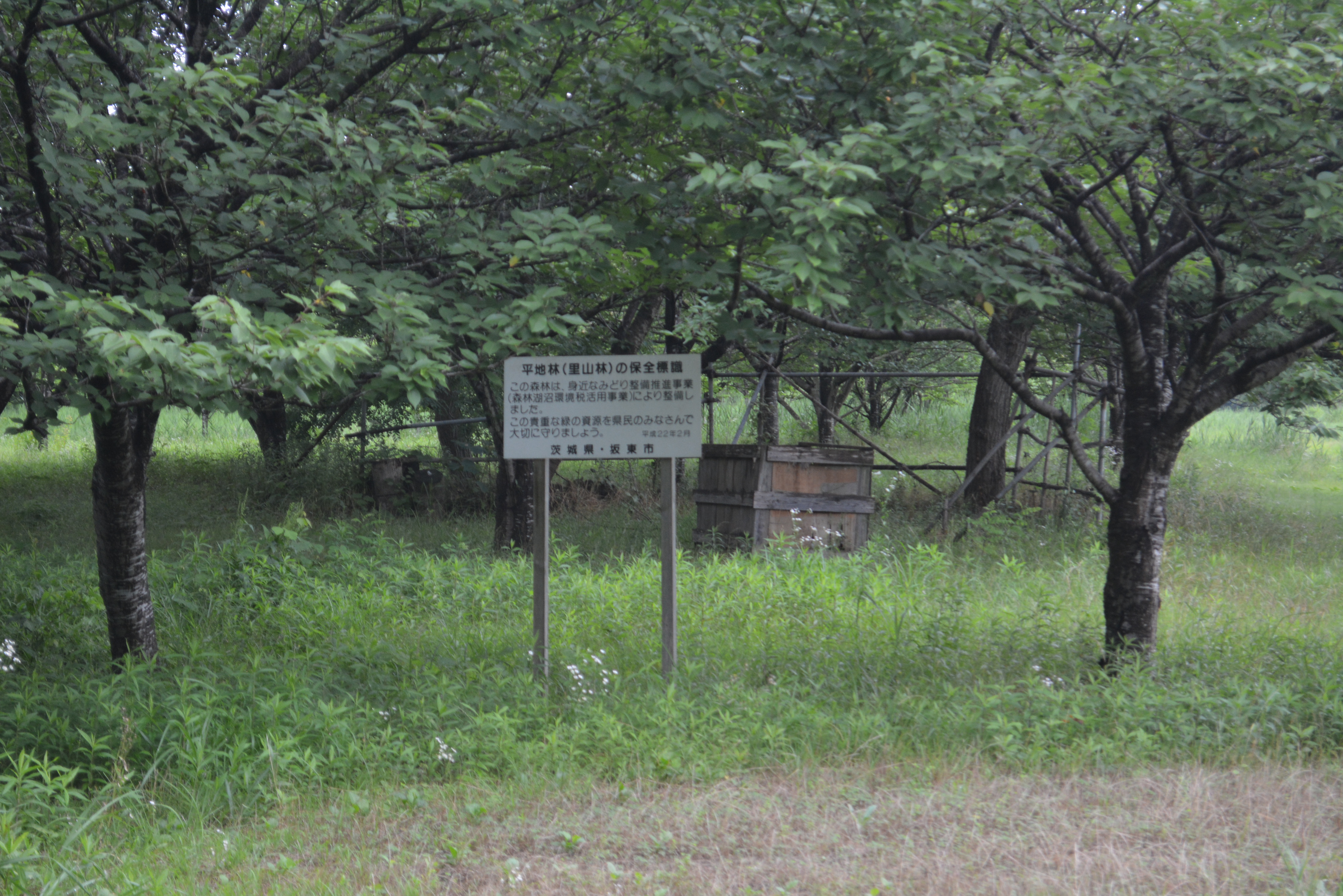 Sakura no Sato in Bando city,Japan